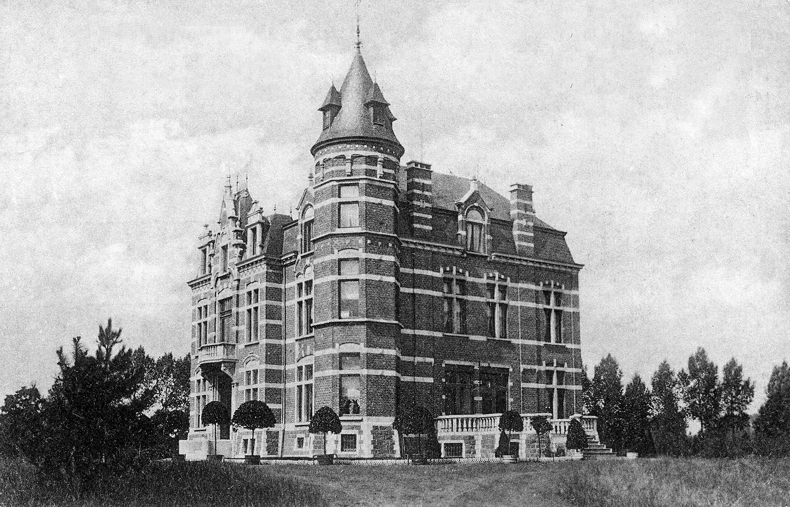 Picture Savelkoul